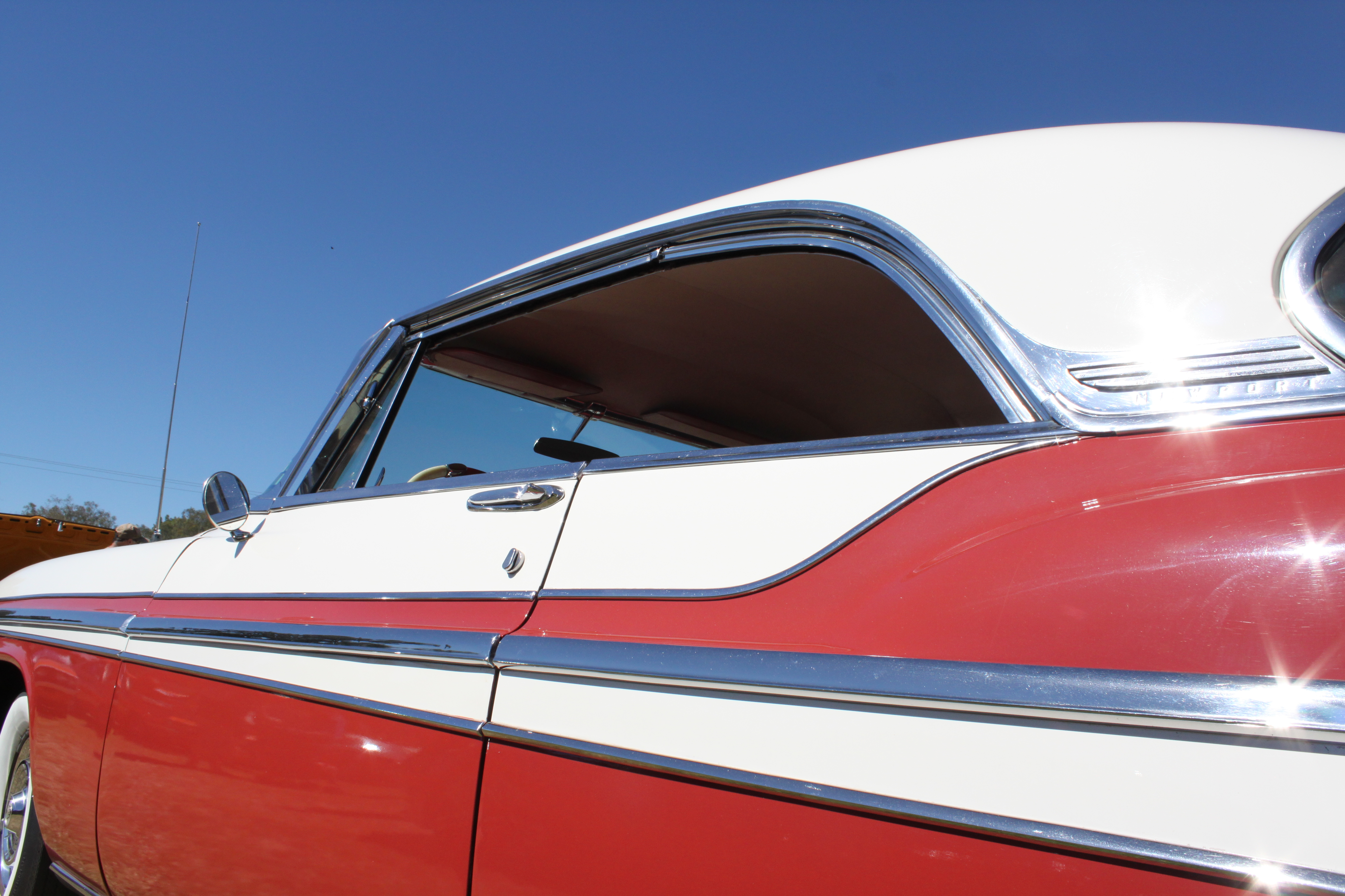 Chryslers on the Murray 2015